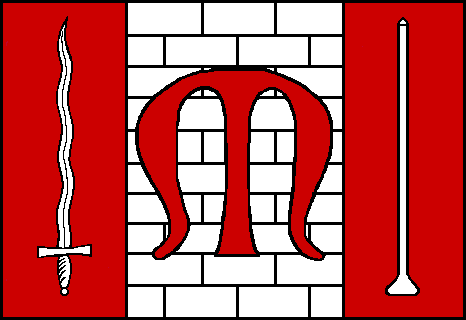 Municipal flag of Holubice village, Prague-Westz District, Czech Republic.